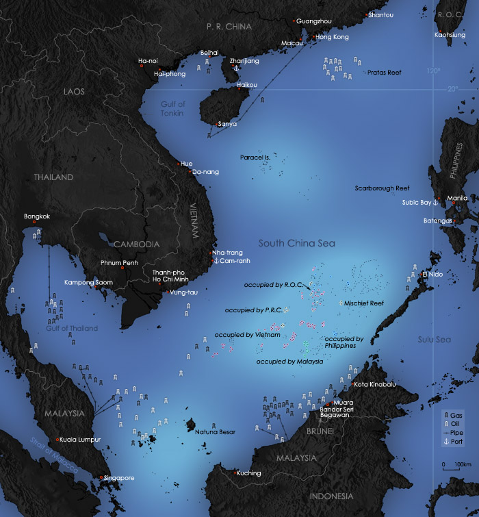 Created and copyright (2006) by Yeu Ninje. Released under the GNU FDL.